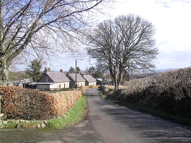 Bonjedward A small hamlet to the north of Jedburgh.